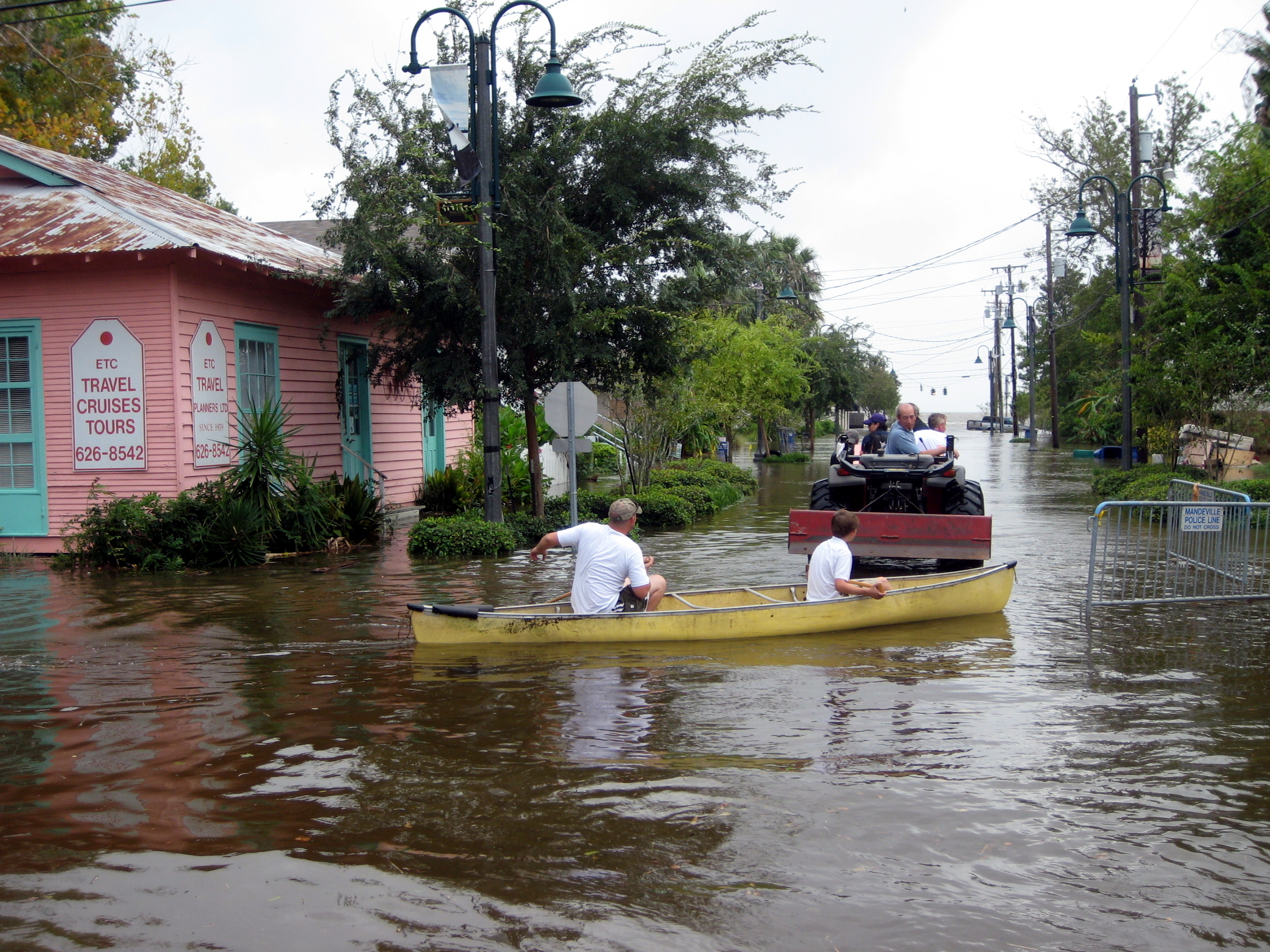 Flooding caused by Hurricane Ike in Mandeville, Louisiana